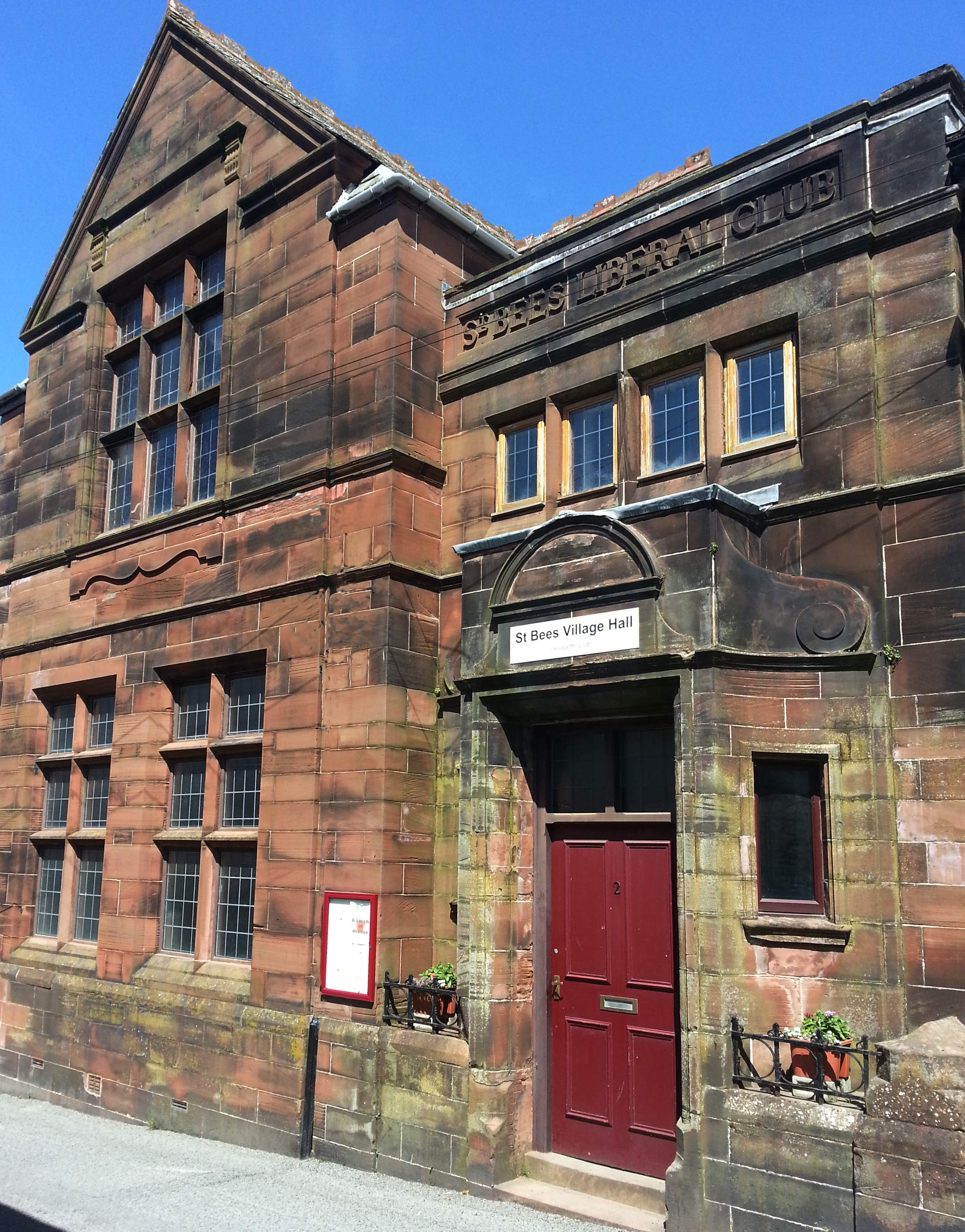 St Bees Village Hall in Finkle Street, St Bees, Cumbria, UK.